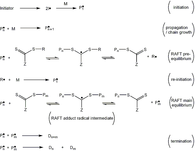 Simplified mechanism of the RAFT (reversible addition fragmentation chain transfer) process